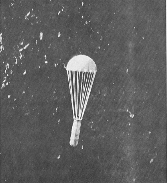 An M26 sea mine being dropped by a B-29